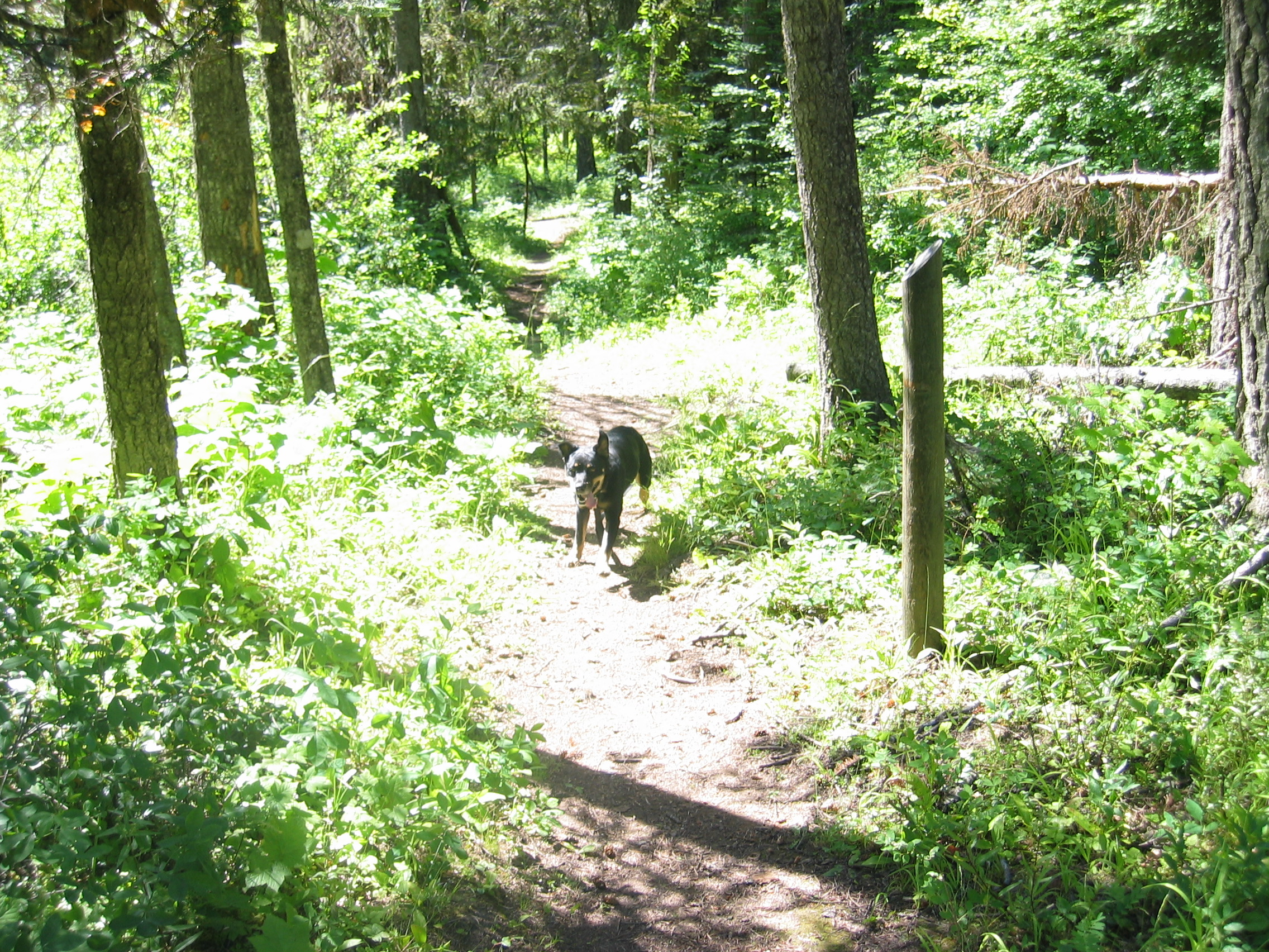 Emigrant Springs State Heritage Area horse trail located along Interstate 84 near the summit of Oregon's Blue Mountains.